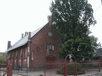 Mariavite Church in Piatek